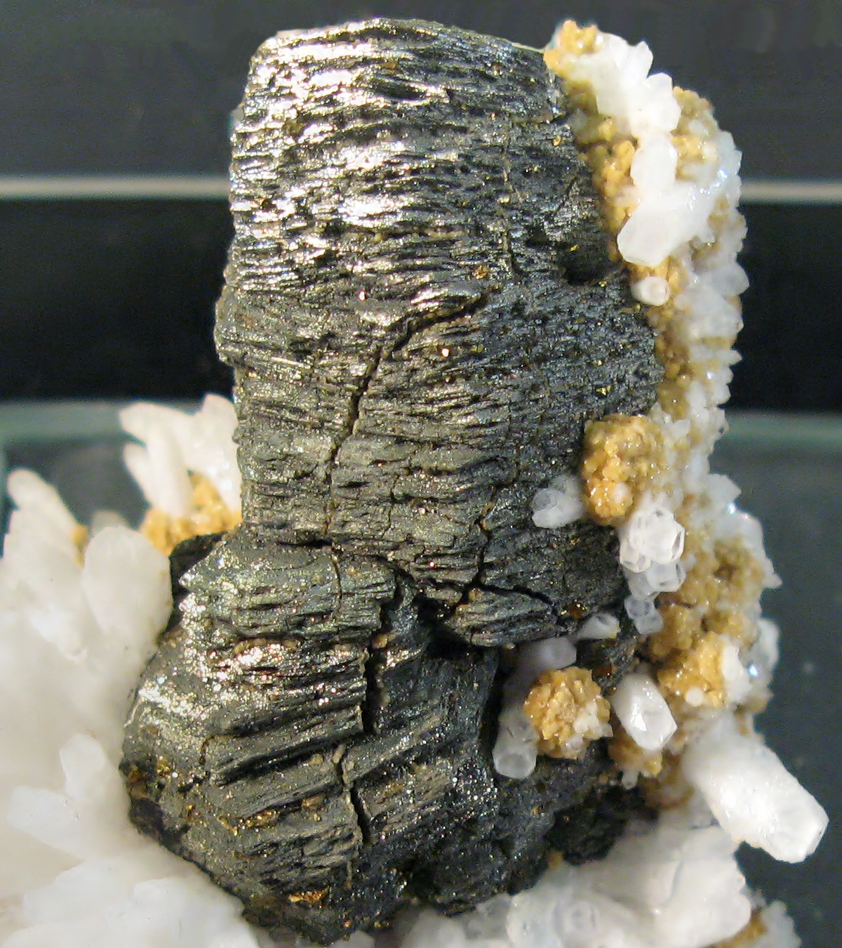 Pseudomorphosis von Pyrite to Pyrrhotite with Quartz - Locality: Trepča, Yugoslavia - Exposed in the Mineralogical Museum, Bonn, Germany